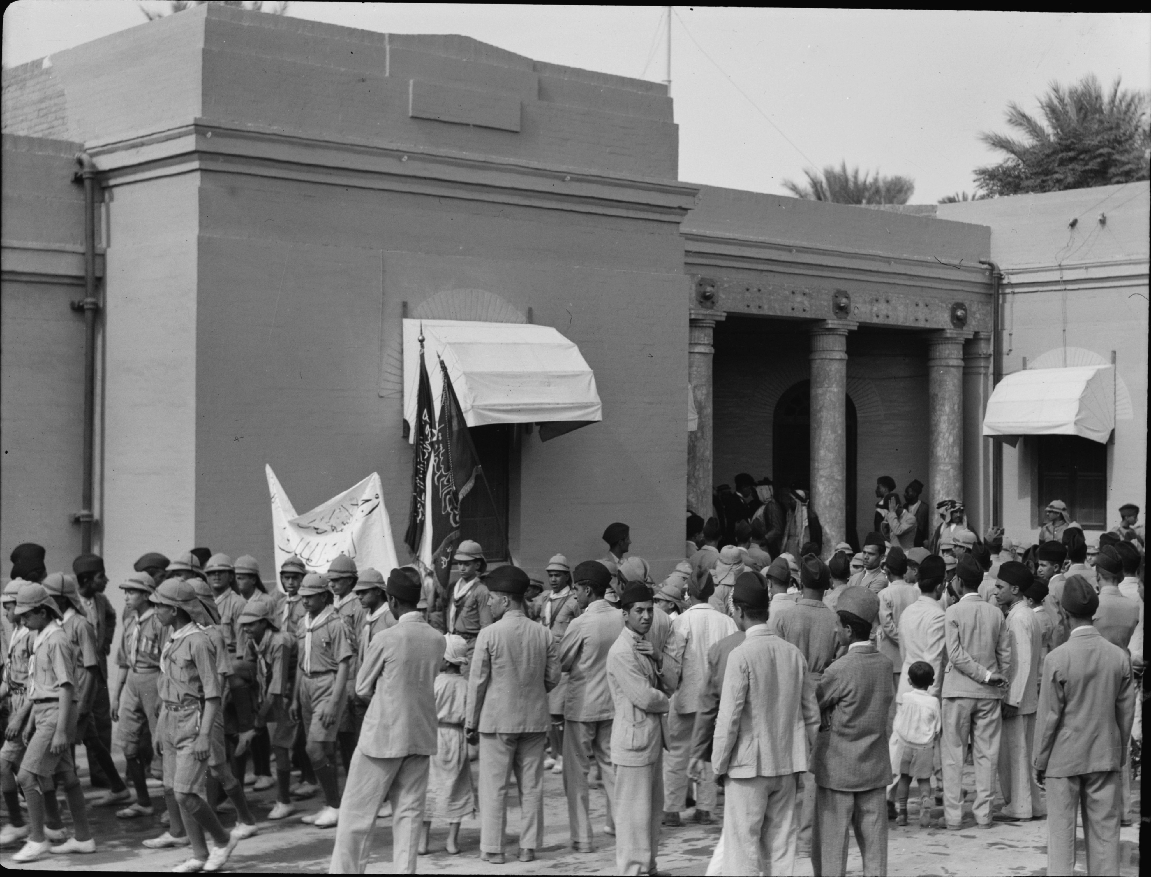 Title: 10/6/32 at the palace etc., Baghdad, parade of boyscouts Abstract/medium: G. Eric and Edith Matson Photograph Collection Physical description: 1 negative